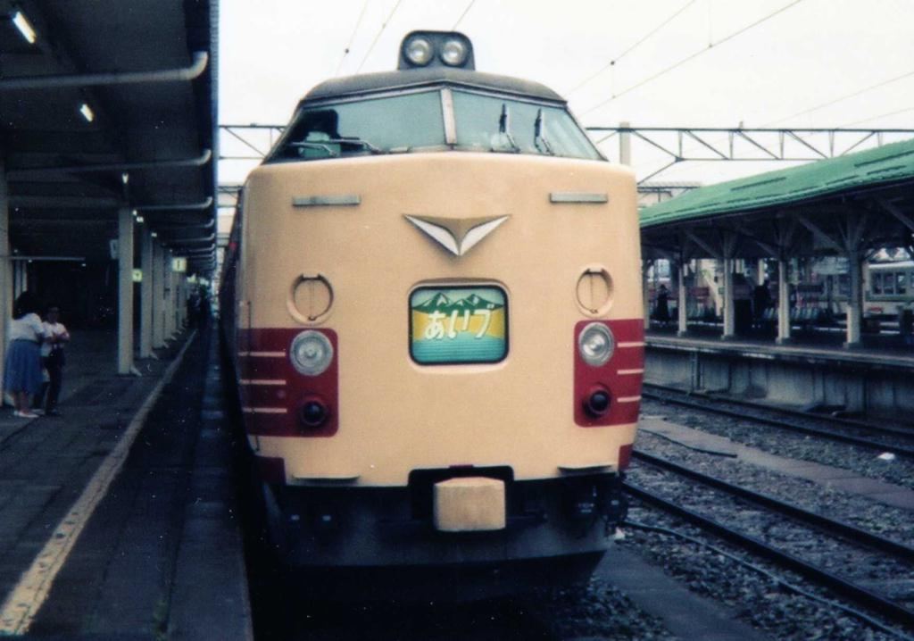 East Japan Railway Company, EMU Type 485-1500 "Aizu". At Aizu-Wakamatsu Sta.